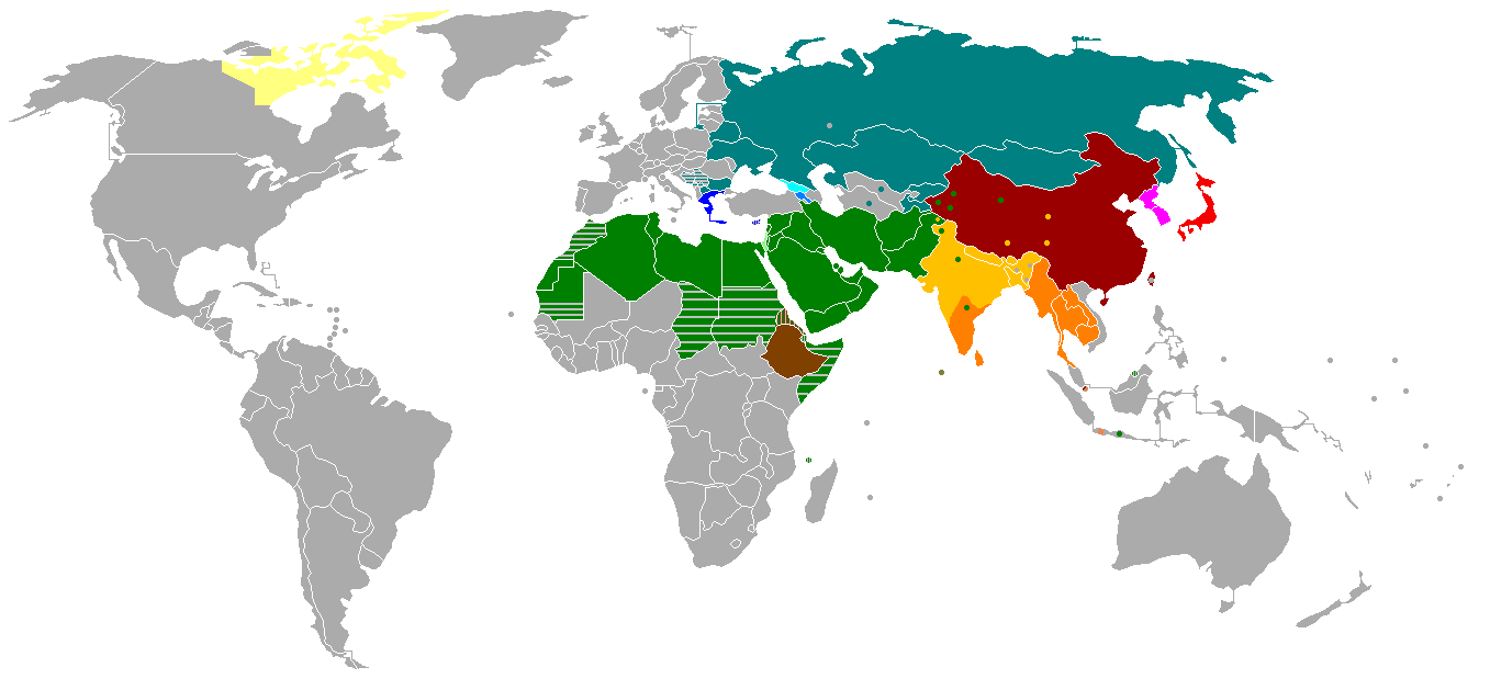 Writing systems worldwide. Principal scripts at the national level, with selected regional and minority scripts. Alphabets: Latin , Cyrillic , Georgian , Greek , Armenian Abjads: Arabic (Uyghur uses an Arabic-based alphabet, not an abjad), Hebrew and Arabic Arabic and Neo-Tifinagh (Neo-Tifinagh is an alphabet, not an abjad) Abugidas: North Indic , South Indic , Ethiopic , Thaana Canadian Syllabic (Latin alphabet co-official), Logographic+syllabic: Pure logographic , Mixed logographic and syllabaries , Featural-alphabet + limited logographic , Featural-alphabet